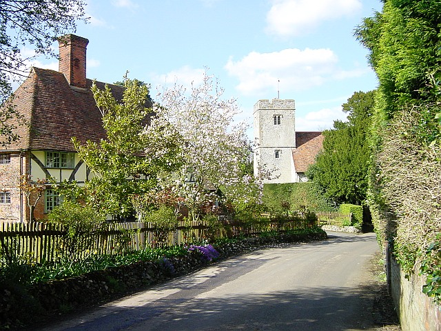 Rawling Street, Milstead. Hoggeshaws is said to be the oldest house in the village and stands next to the church of St Mary and the Holy Cross.